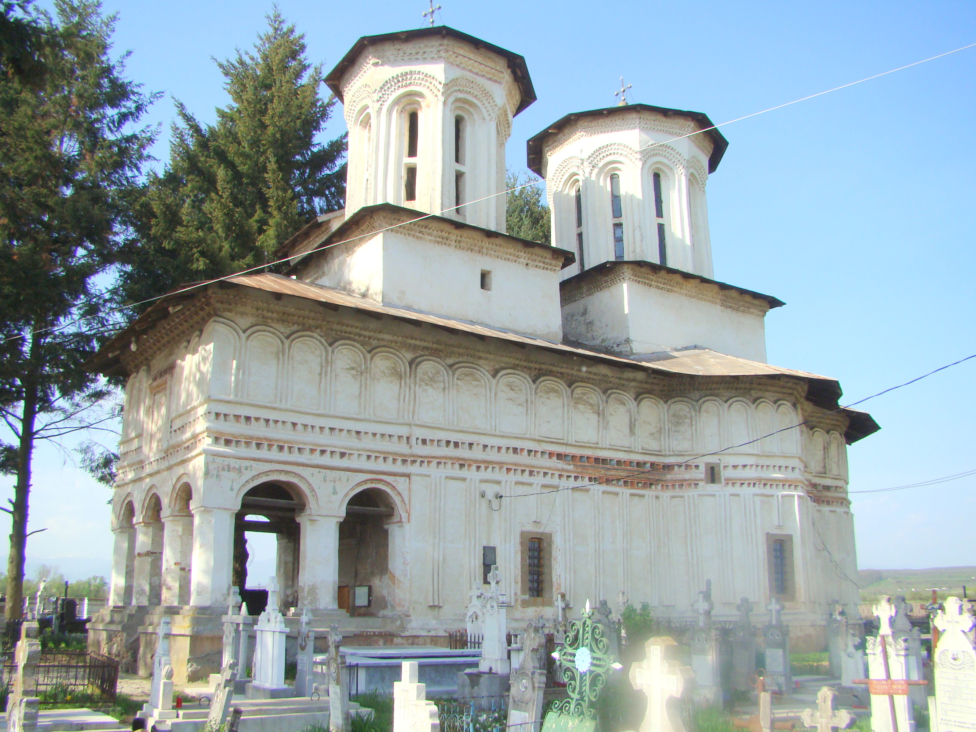 Saint Nicholas church in Telești, Gorj county, Romania